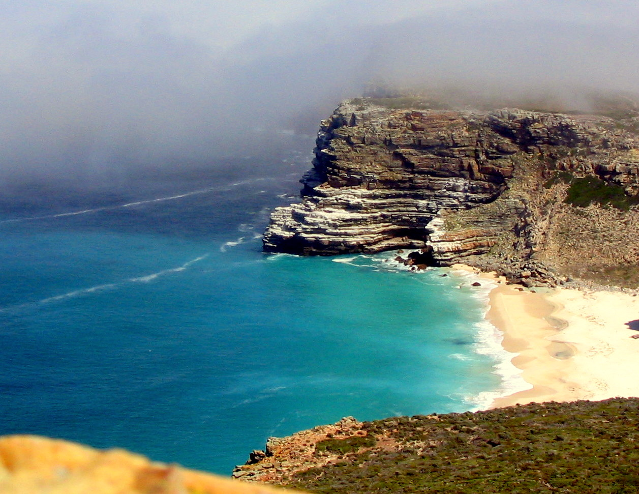 One of the picturesque beaches of the Cape Peninsula.